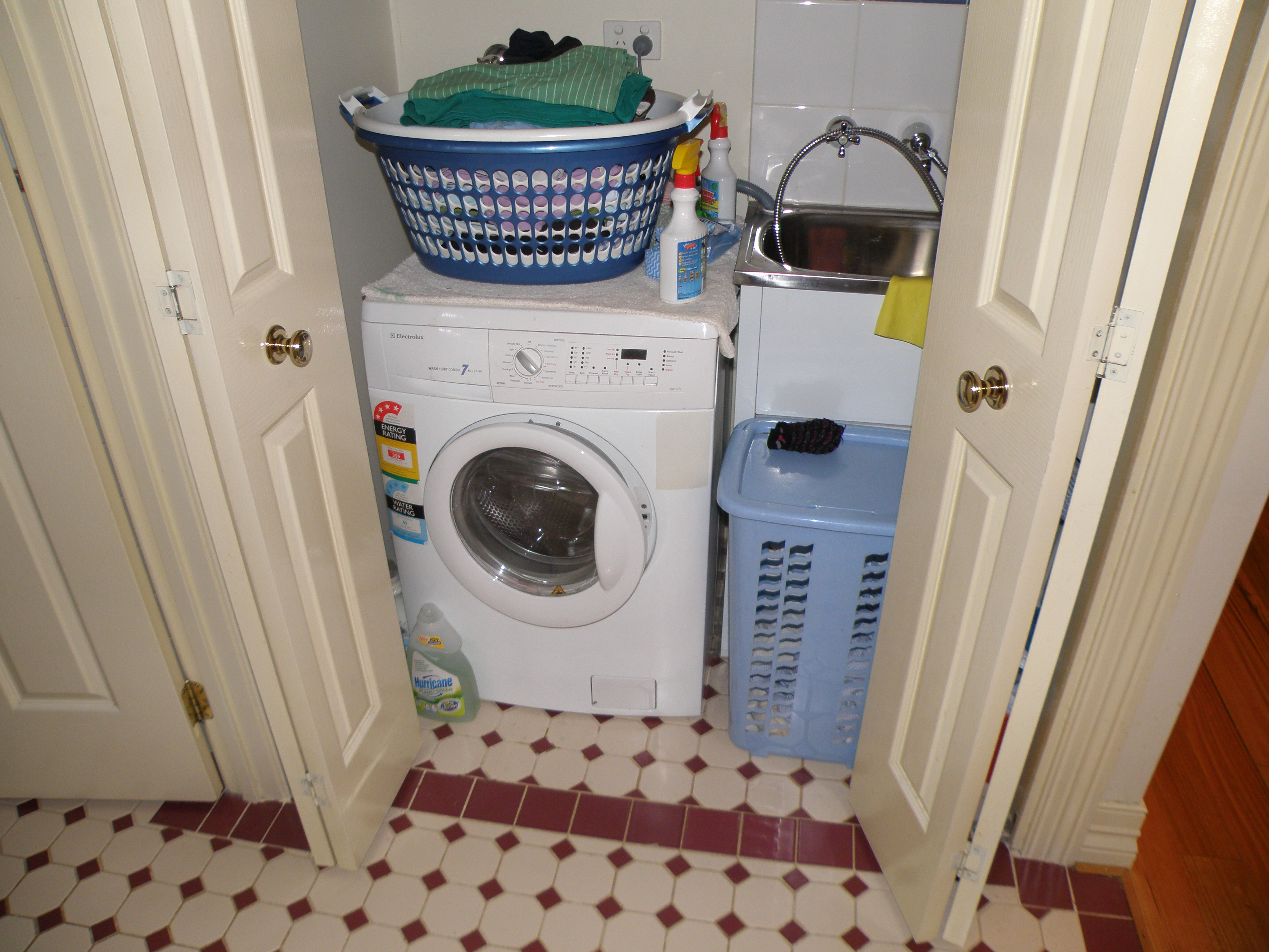 A photo of my mother's Washing Machine. Technically a washer-dryer combo, Model Electrolux EWD1477. The model is recent as of the date of photo being taken (late 2009). An unremarkable, standard, run-of-the-mill, unimportant, Washing machine.